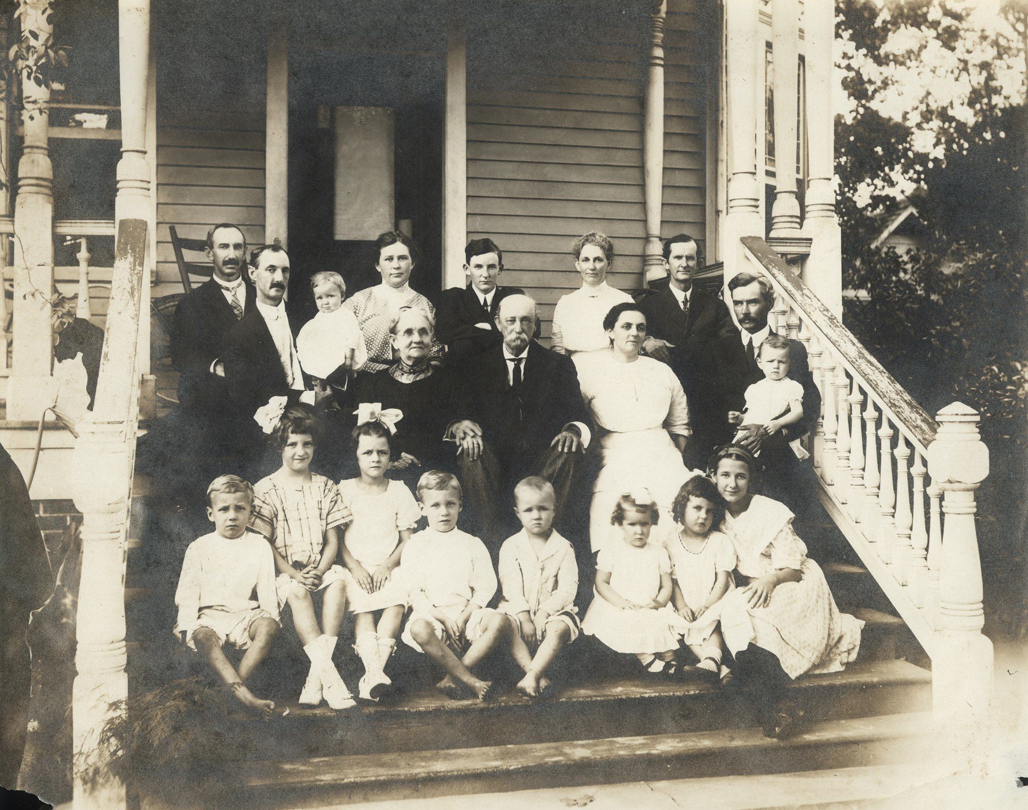 Samuel Dibble I family of Orangeburg SC c. 1912 (date and identification assumptions based on ages of children by Ann Wyatt Dibble); Back row: Samuel Dibble II, Louis Virgil Dibble, Rosa Parsons Dibble (baby), Ann Eliza Leak Wyatt Dibble, Samuel Dibble Moss , Frances Agnes Dibble Moss, Benjamin Hart Moss, Middle row: Mary Christiana Louis Dibble, Samuel Dibble , Mary “May” Henley Watson, Whitefield William Watson, Agnes Adele Watson (baby); Front row: Samuel Gabeau Dibble ? twin, Annie Leak Dibble (Bradley), Mary Louis Watson (Coleman), Thomas Wyatt Dibble ? twin, Samuel Dibble “Sam” Watson; Angelina Wannamaker Watson (Mayes), Mary Agnes Dibble (Morris), Mary Caroline Moss.